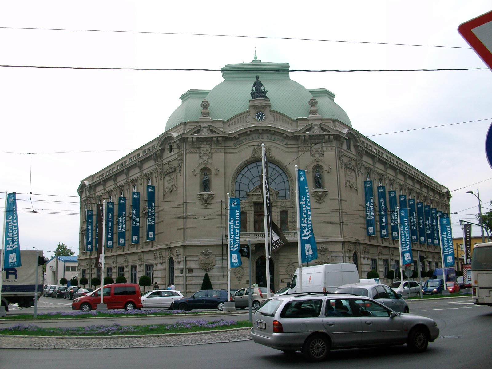 Belgrade zadruga building Српски (ћирилица): Зграда београдске задруге